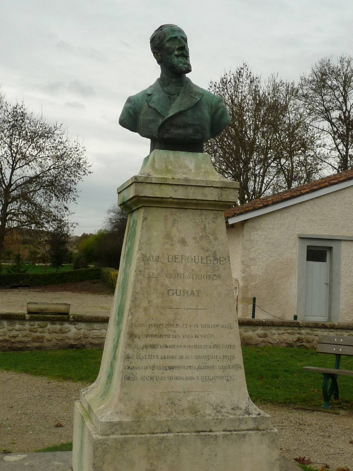 Paul Déroulède statue at Gurat, Charente, SW France